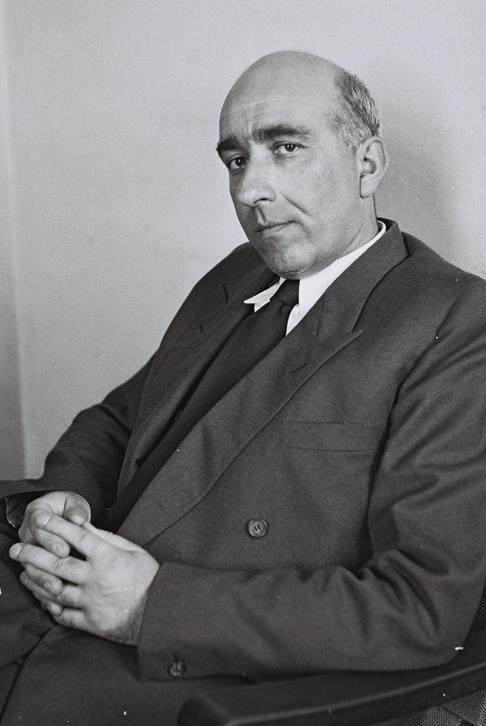 Supreme court justice dr. Haim Cohen.